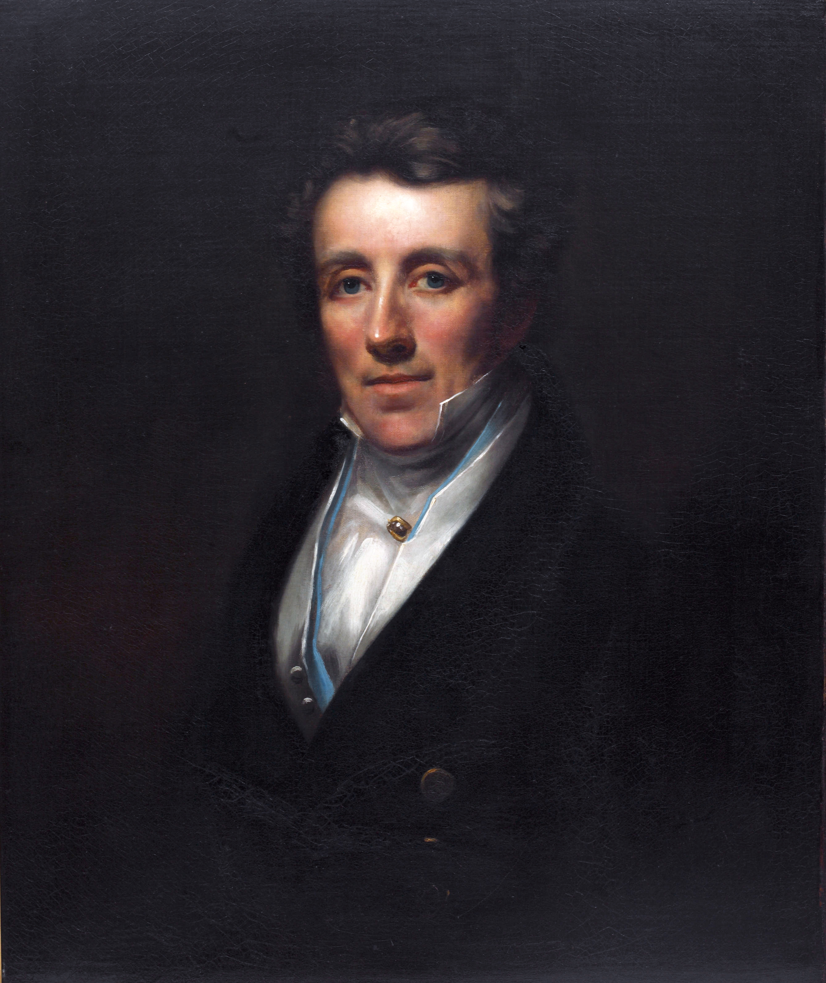 William Rawson née Adams 1783-1827 oil on canvas 73 x 60cm